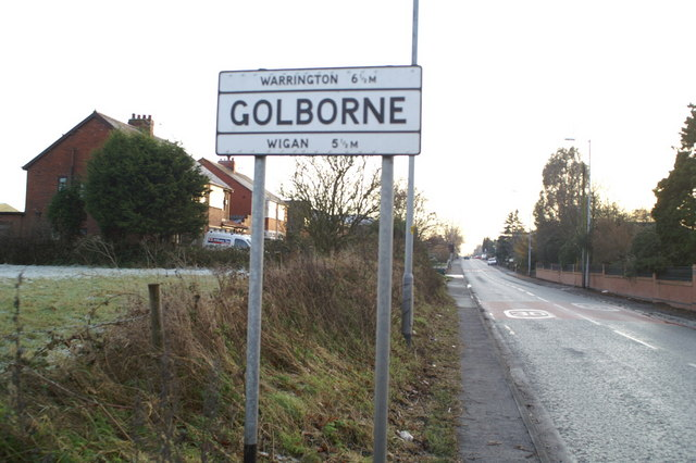 Original cast sign for Golborne on Wigan Road (A573) Other townships in Wigan Borough have opted for more modern, decorative signs to mark their boundary. Either the fad has yet to reach Golborne, or its folk are unimpressed by the trend.